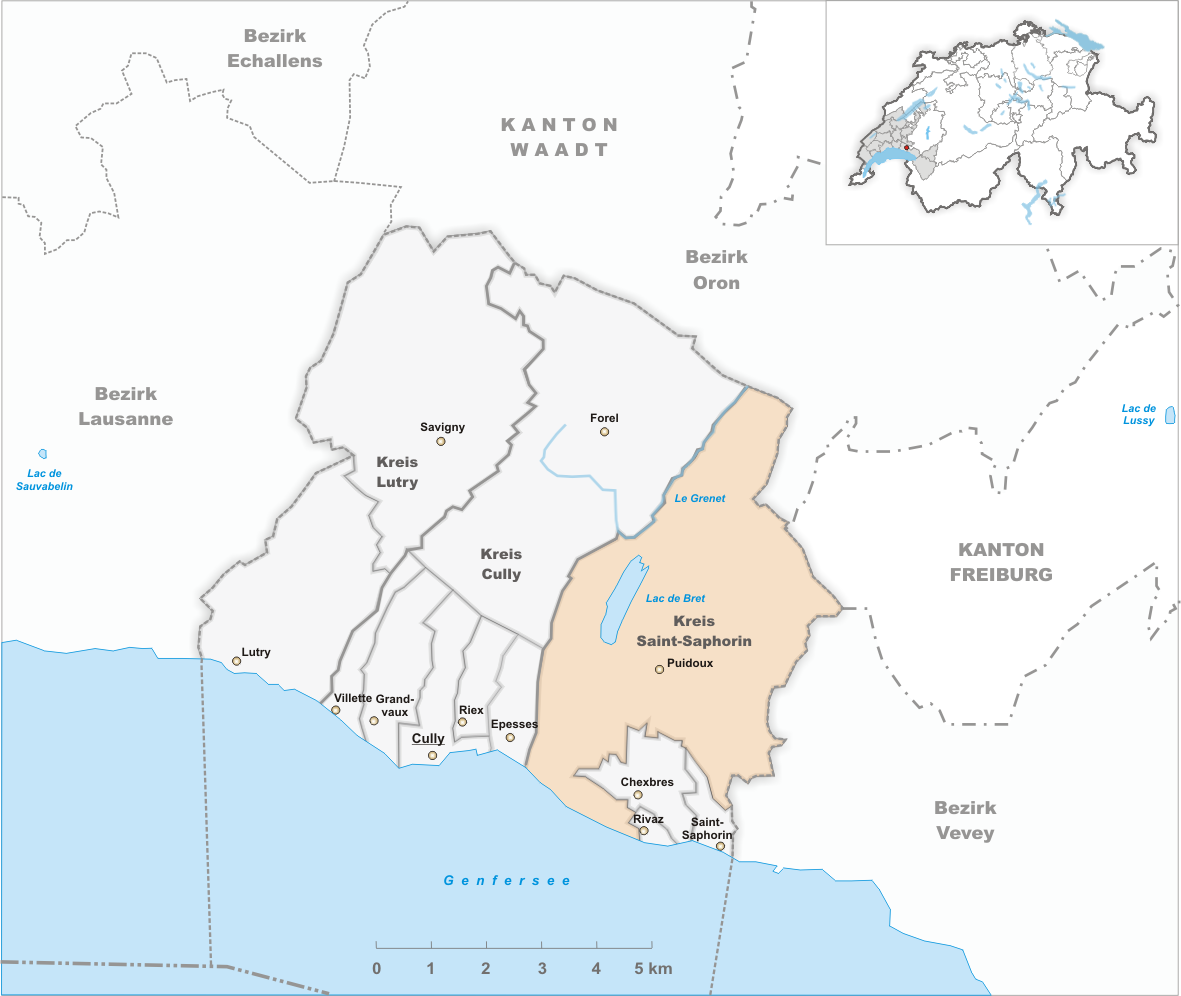 Municipality Puidoux